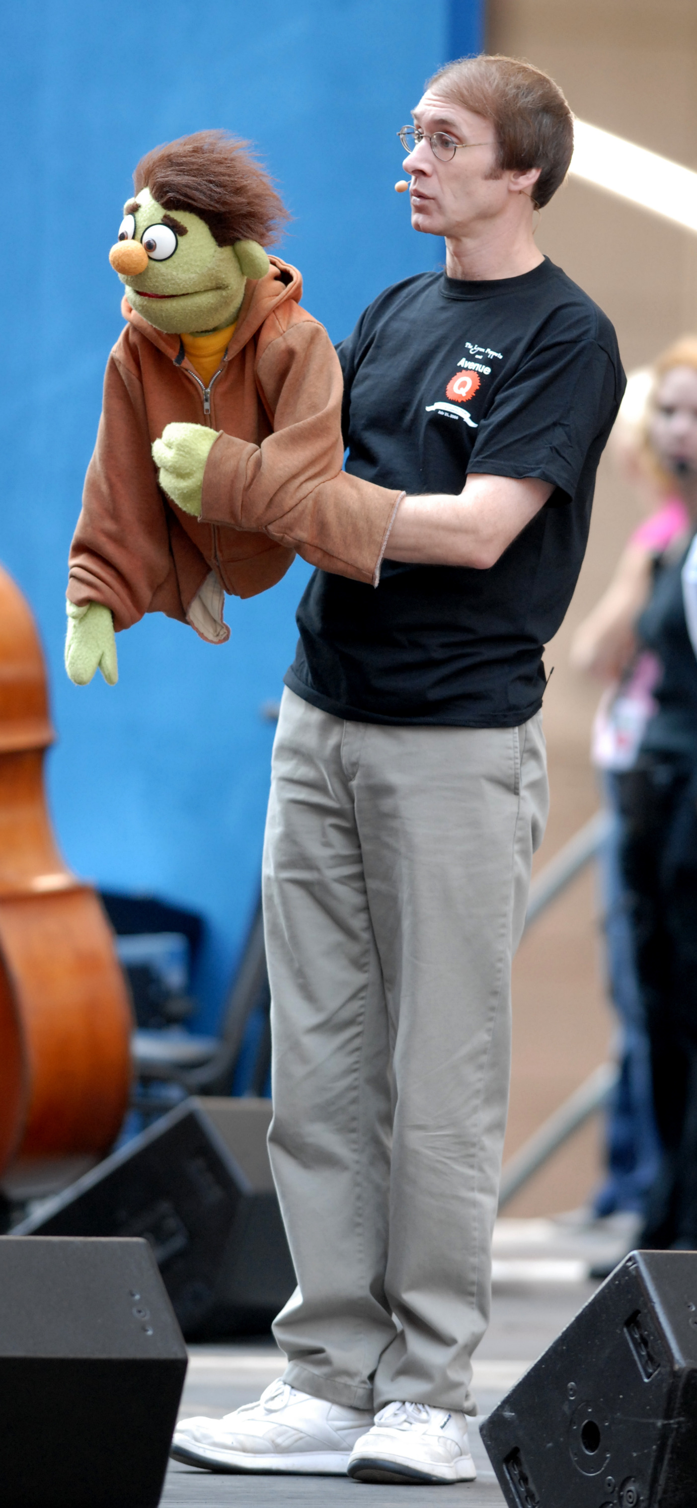 The cast of Avenue Q performs "It Sucks to Be Me" at Broadway on Broadway, September 10th 2006.